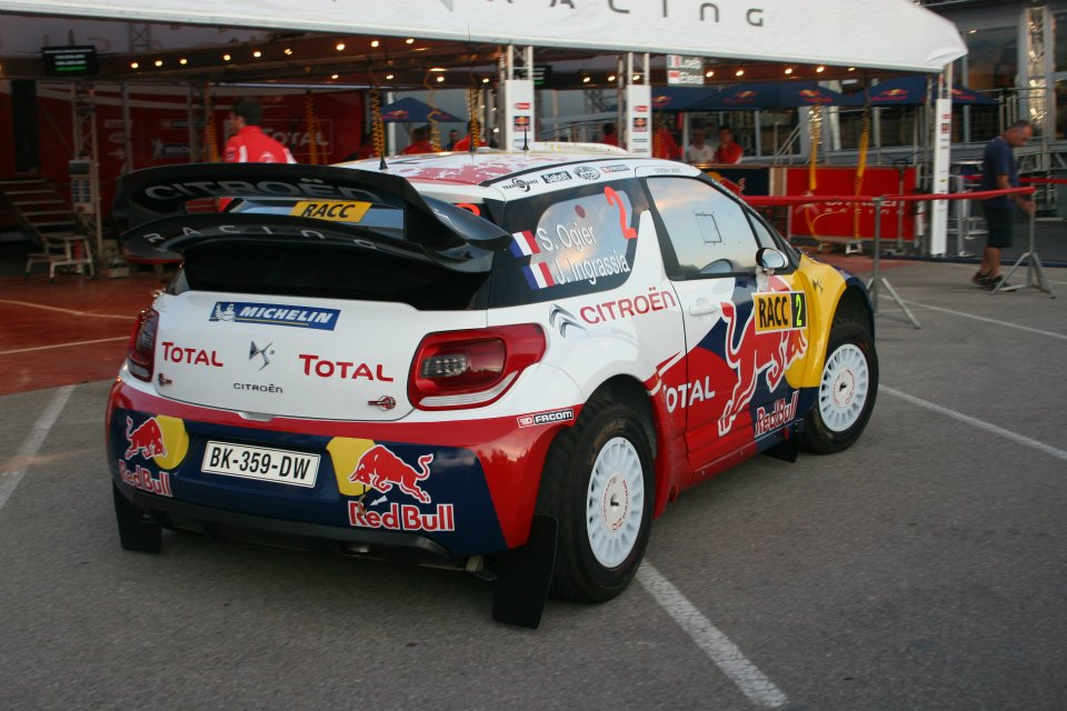 Sebastien Ogier in 2011 Rally Catalunya.